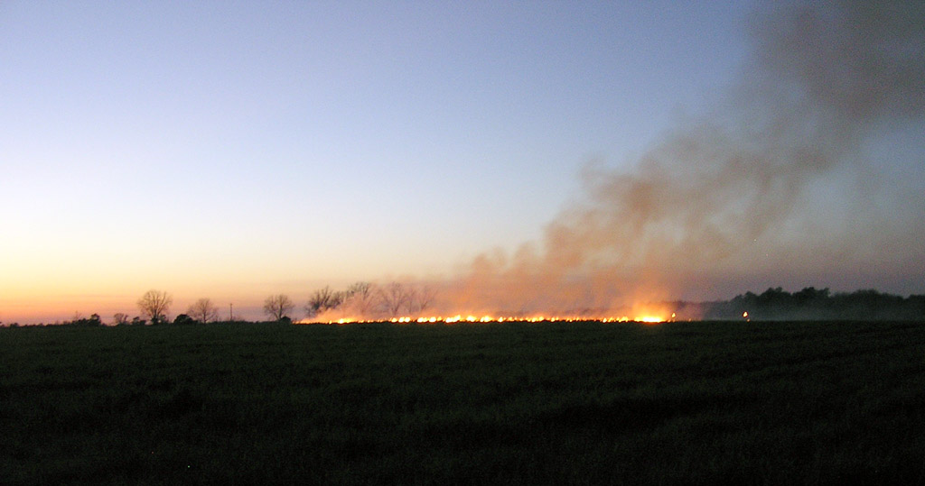 Photo taken by Richard Chambers the evening of Feb 28, 2006 outside of Statesboro of a field burn (controlled burn) in preparation for spring planting. This field was planted with a ground cover during the winter. Photograph taken with an Olympus C-740 digital camera with some levels changing using Adobe Photoshop to provide more detail.